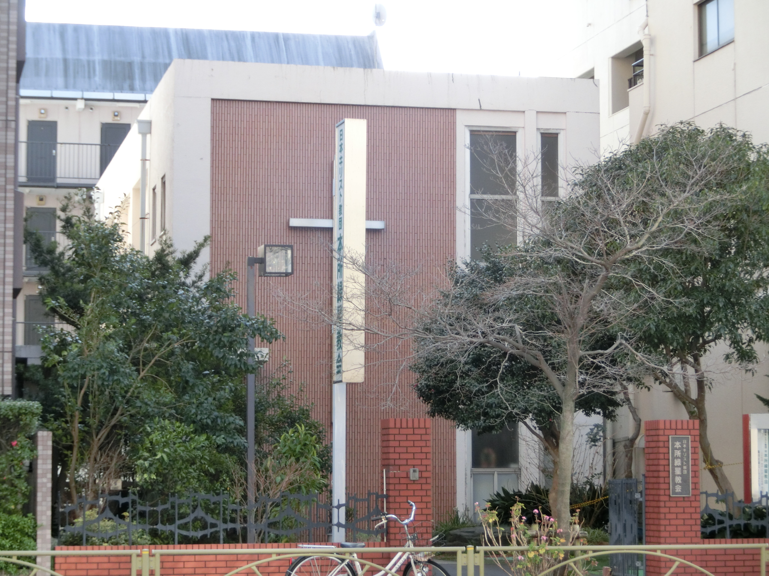 UCCJ Honjo Ryokusei Church